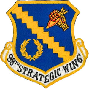 Emblem of the USAF 98th Strategic Wing